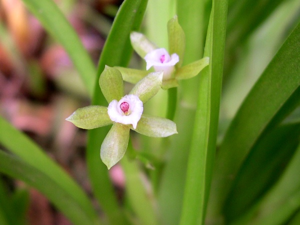 Cischweinfia kroemeri